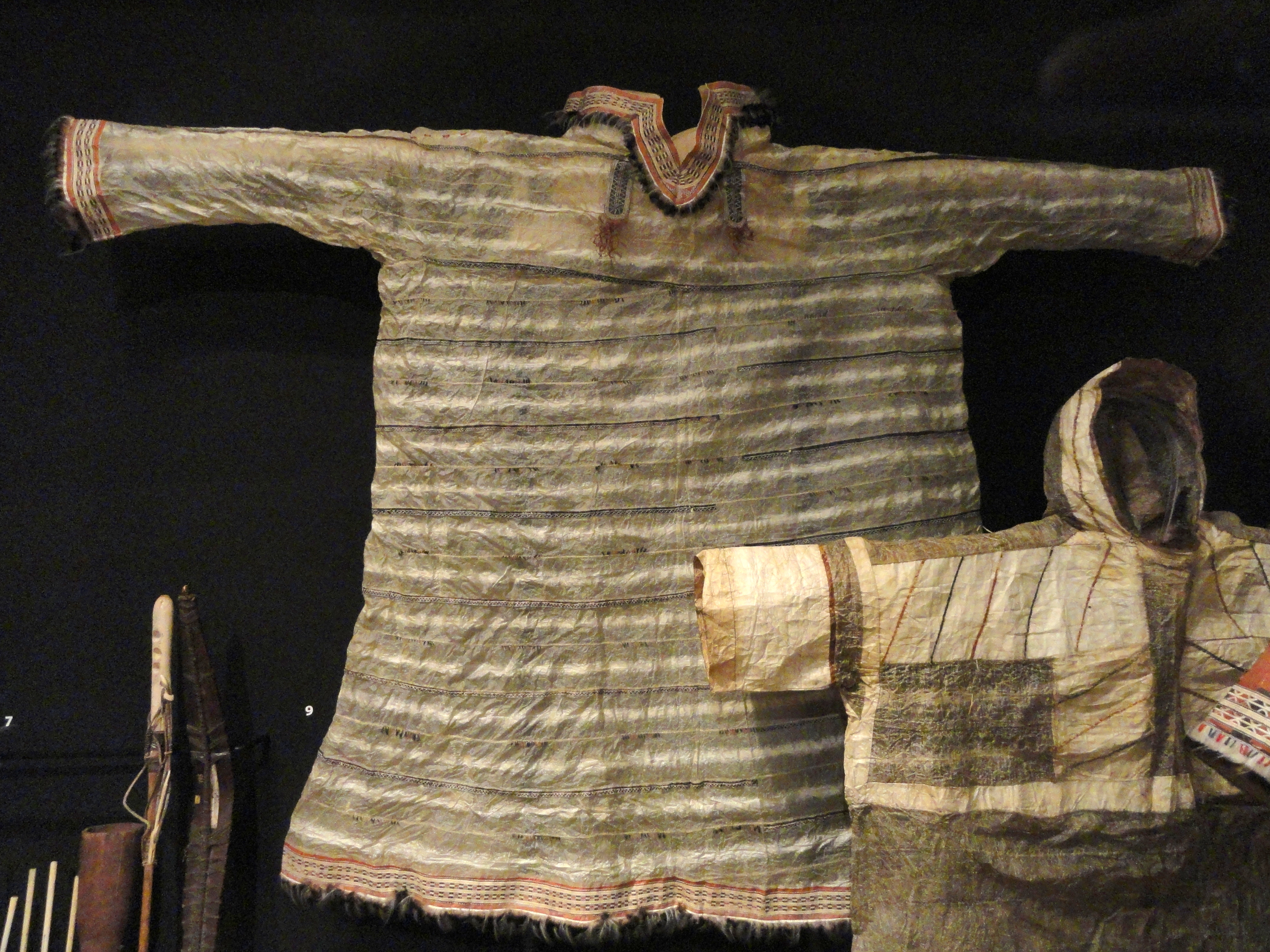 Exhibit in the Arvid Adolf Etholén collection, Museum of Cultures, Helsinki, Finland.